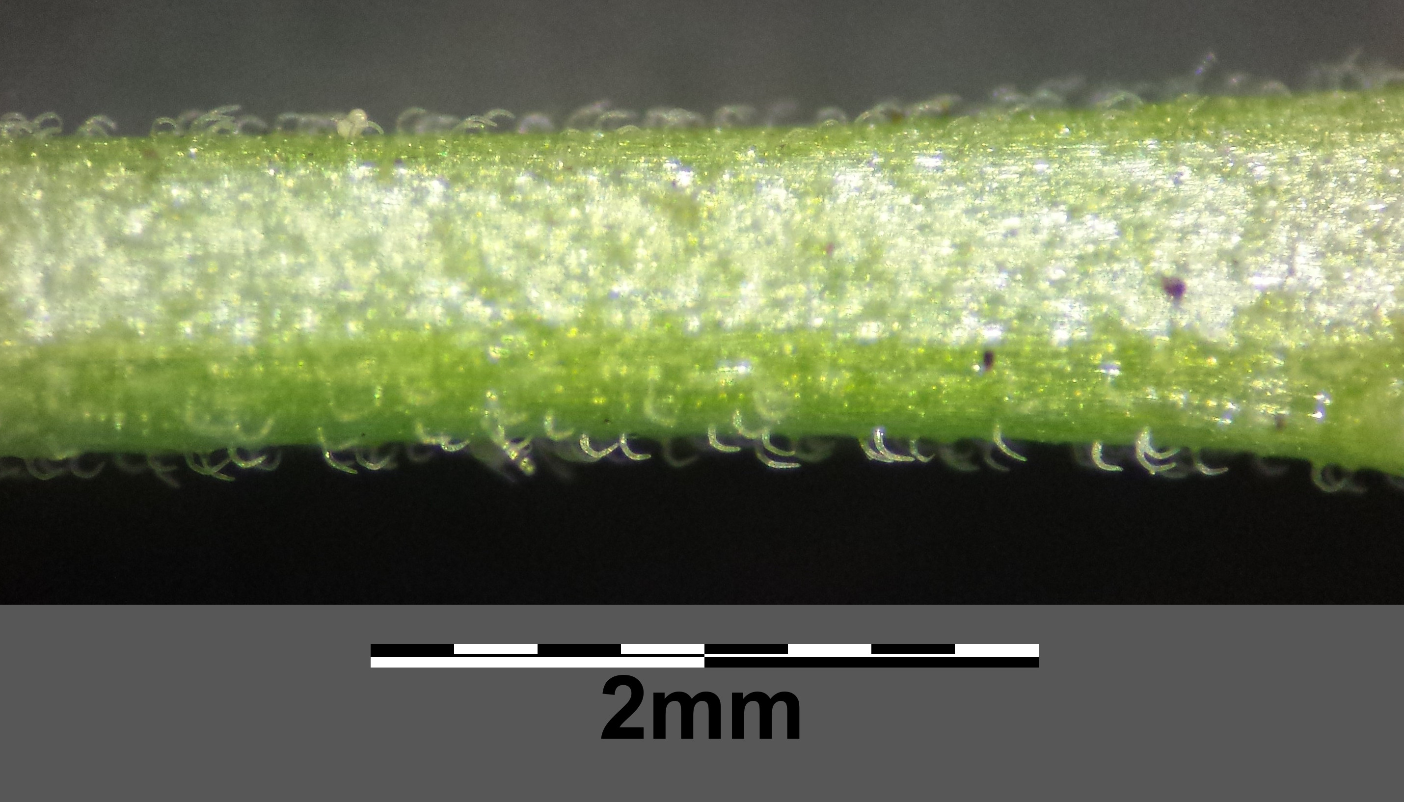 Pedicel with hairs Taxonym: Veronica serpyllifolia subsp. serpyllifolia ss Fischer et al. EfÖLS 2008 ISBN 978-3-85474-187-9 Location: near Karnabrunner, district Korneuburg, Lower Austria - ca. 300 m a.s.l. Habitat: path within a wood